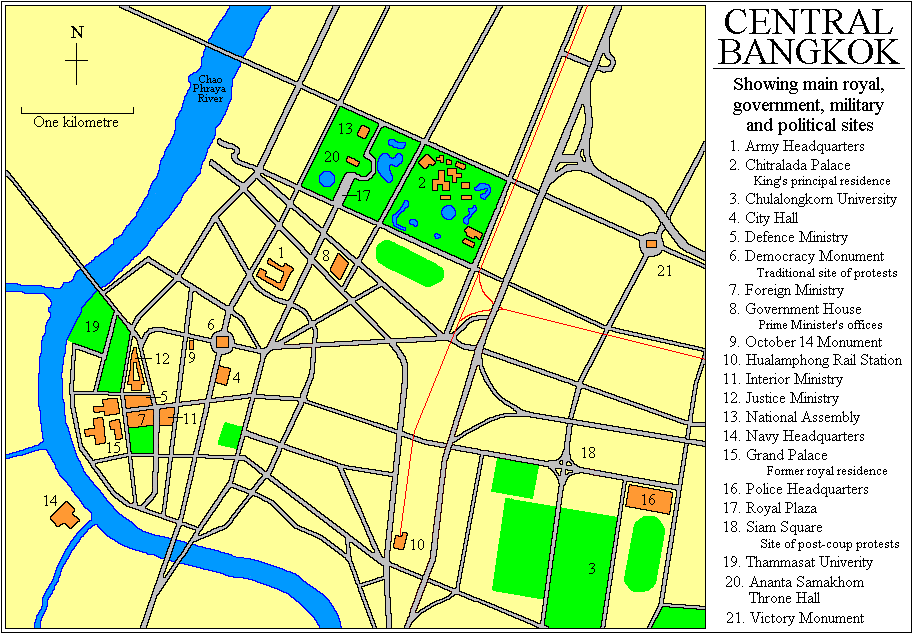 Travel map of Bangkok, Thailand